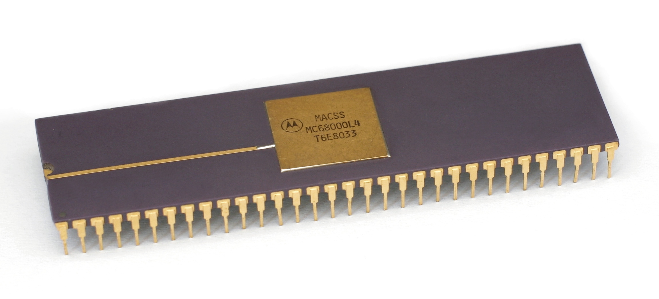 CPU Motorola MC68000 CDIP